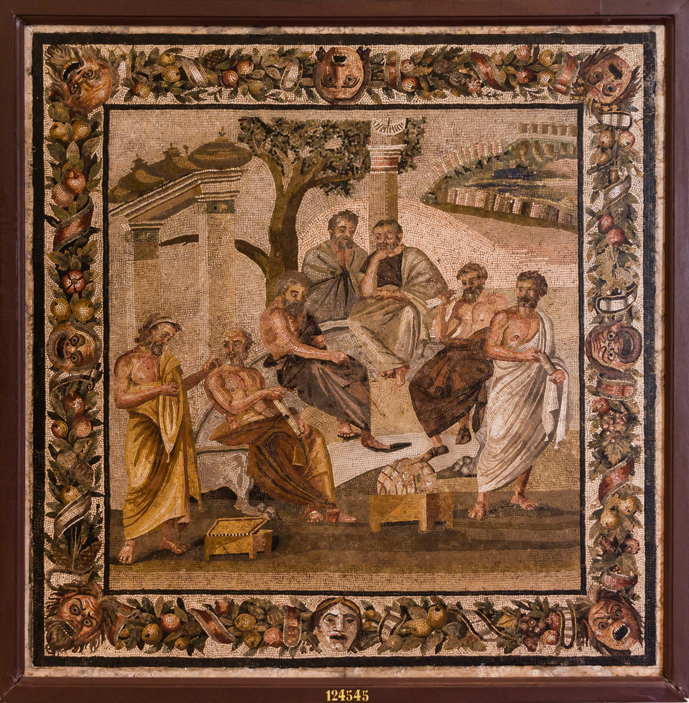 Plato's Academy mosaic. Roman mosaic of the 1st century BCE from Pompeii, now at the Museo Nazionale Archeologico, Naples.